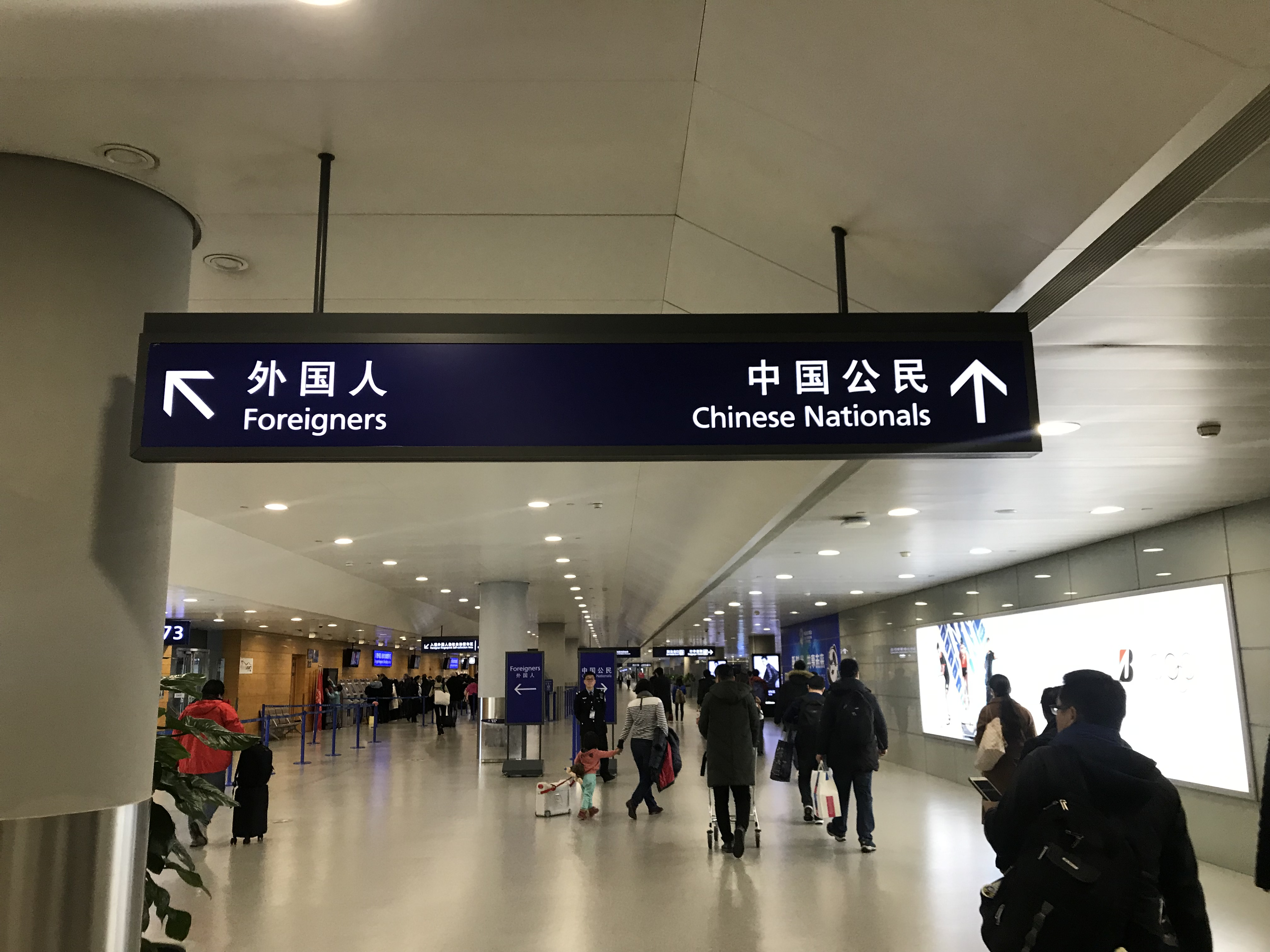 201812 Immigration Inspection directory Sign at PVG. Why they use the word "Nationals" instead of "Citizens"?